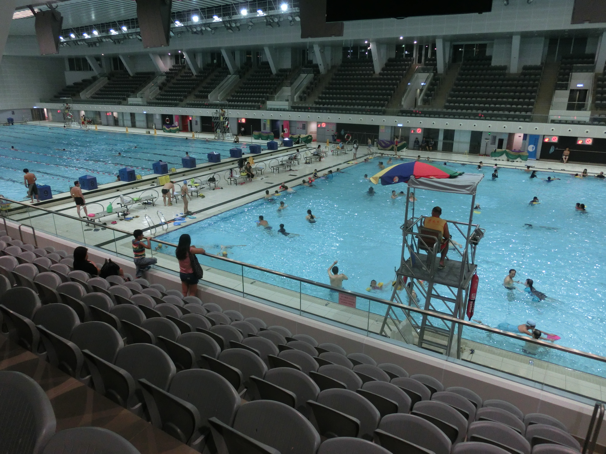 (新) 維多利亞公園游泳池, New Victoria Park Swimming Pool, Causeway Bay, Hong Kong